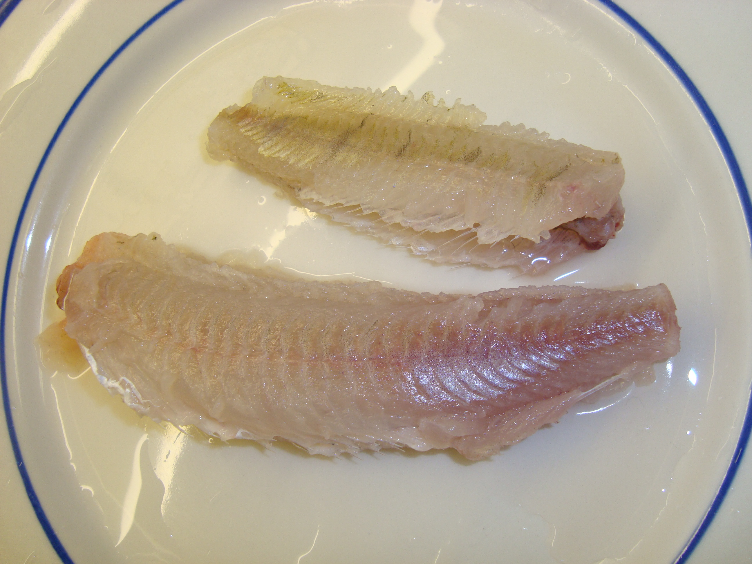 Fillets of perch